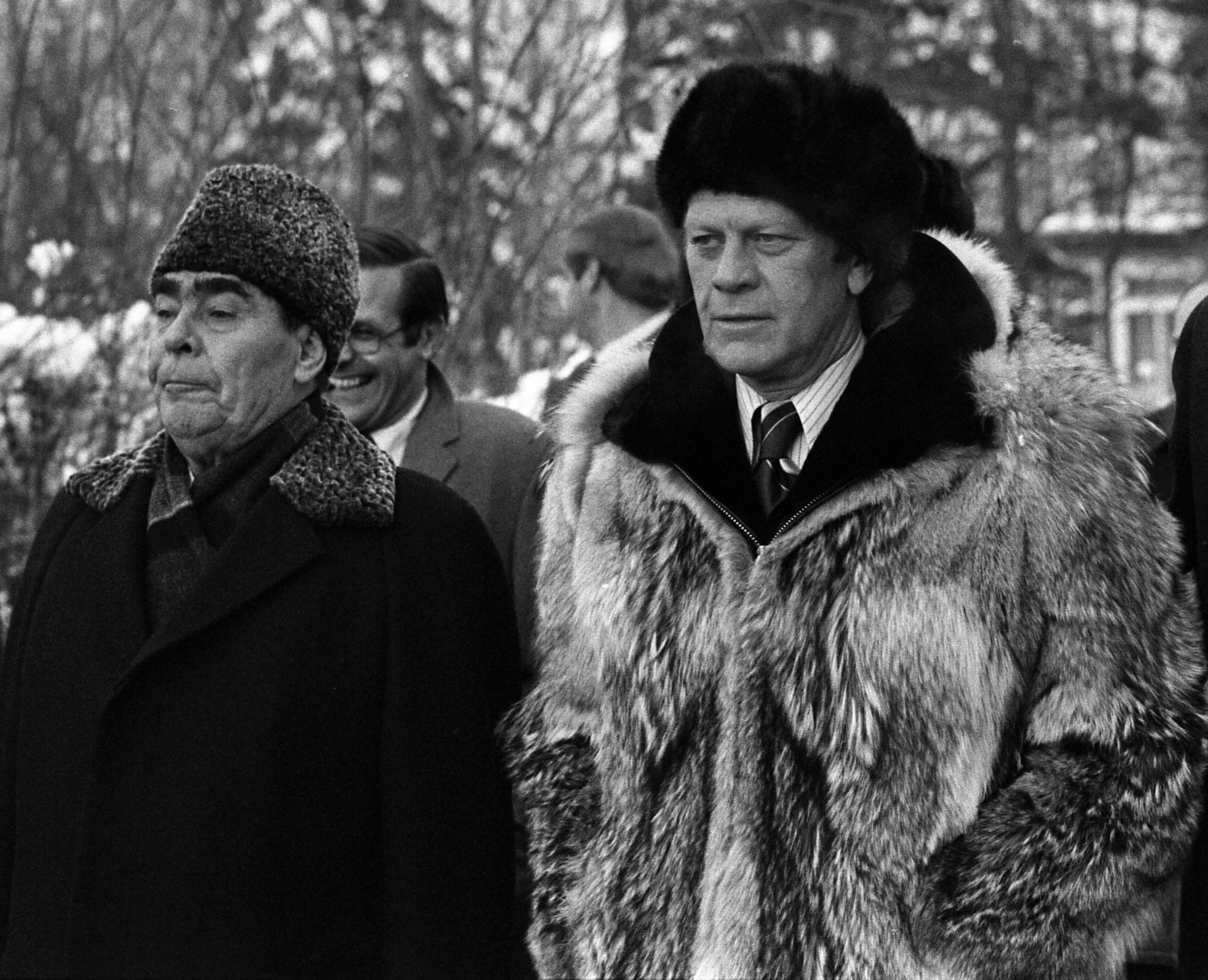 Photograph of President Gerald Ford and General Secretary Leonid Brezhnev as the two world leaders depart Okeansky Sanatorium after signing the Joint Communique on the Limitation of Strategic Offensive Arms.